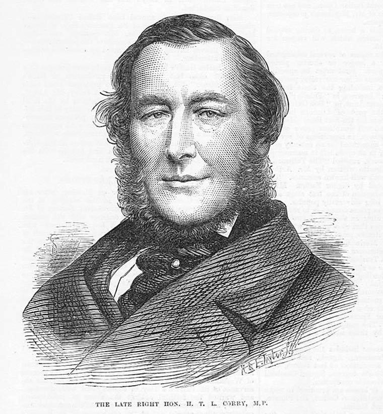 Mr Henry Lowry-Corry British MP for County Tyrone. Antique wood engraved print taken from the Illustrated London News.